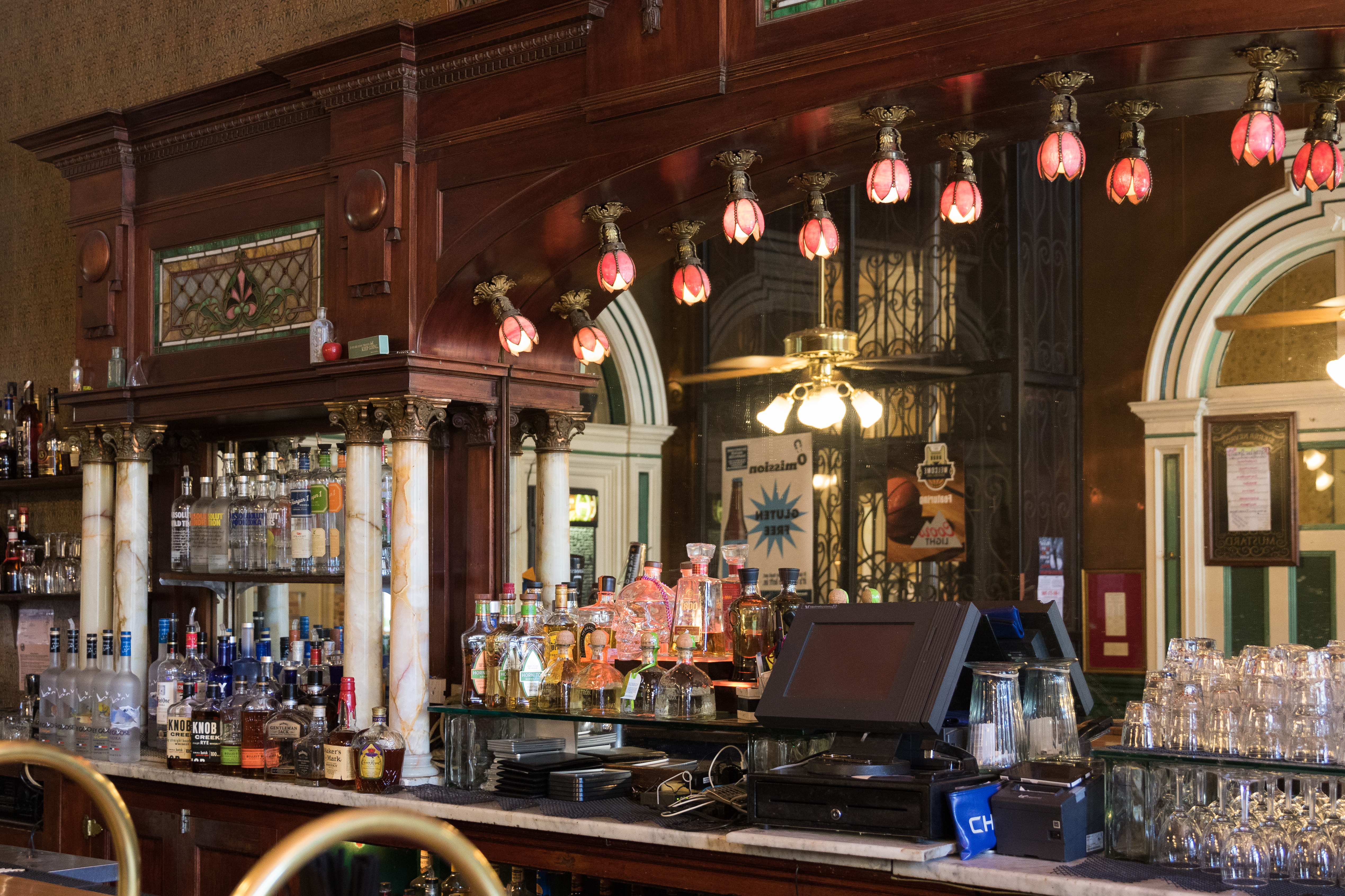 Formerly known as the Golden Gate Saloon, the bar at the historic Holbrooke Hotel in downtown Grass Valley has been in continuous operation since 1852